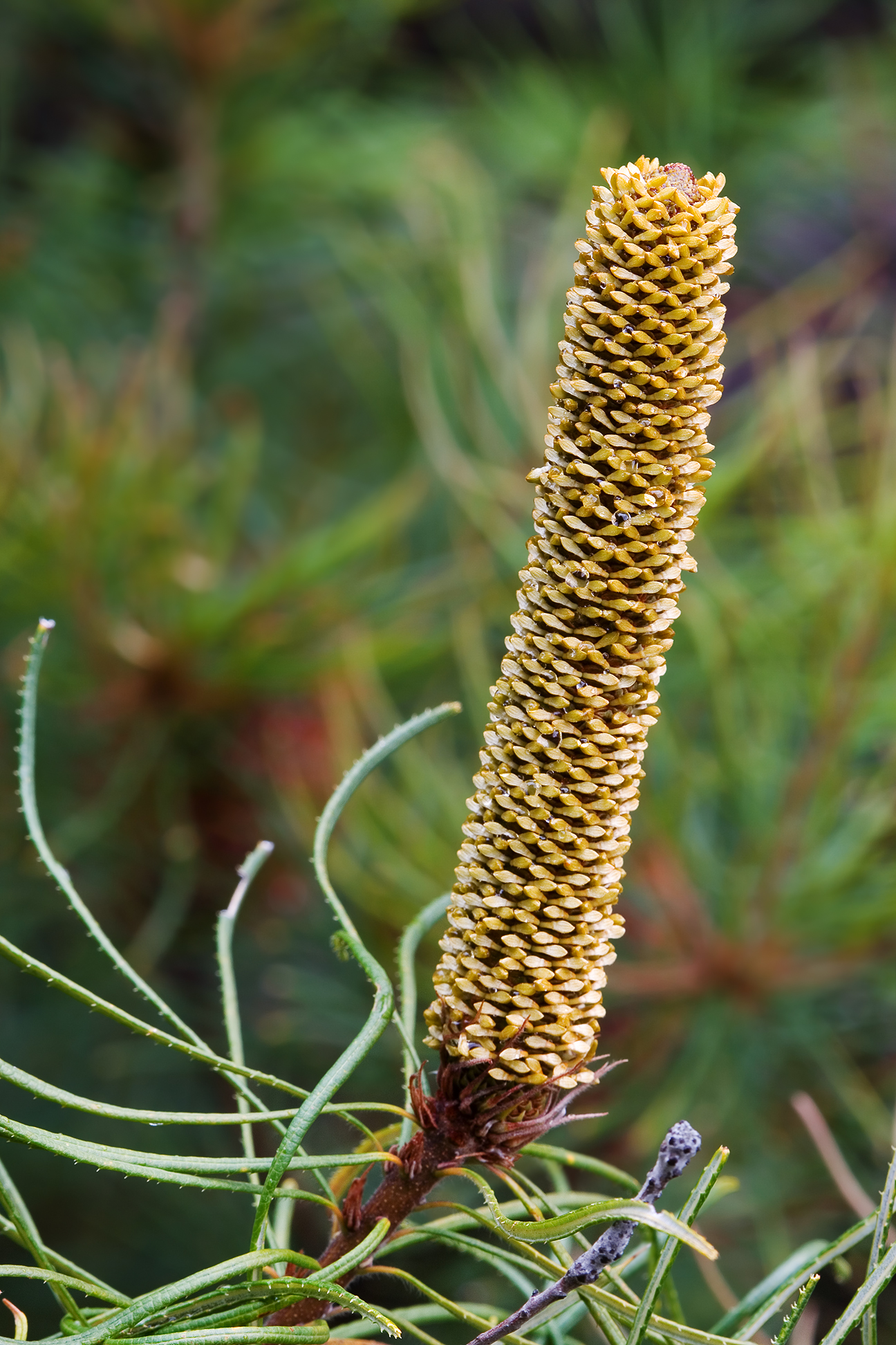 Banksia spinulosa, Royal Tasmanian Botanical Gardens, Tasmania, Australia Camera data Camera Canon EOS 400D Lens Tamron EF 180mm f3.5 1:1 Macro Focal length 180 mm Aperture f/11 Exposure time 1/5 s Sensivity ISO 100